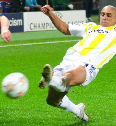 Roberto Carlos